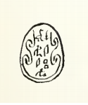 Picture of a scarab of prince Apophis, son of pharaoh Apophis. Reign of Apophis, 15th dynasty, Second Intermediate Period. This scarab is kept in Oxford.